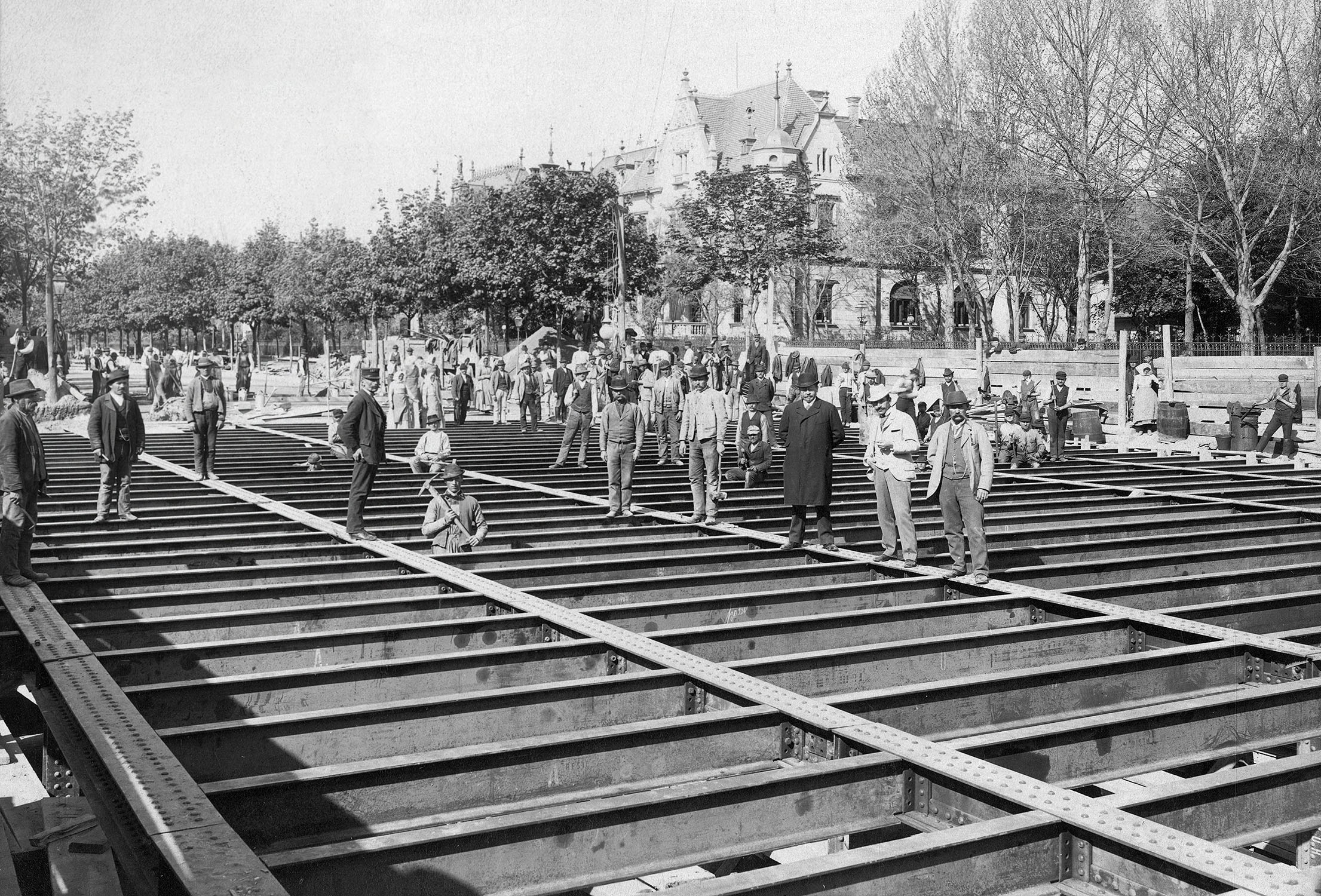 Construction of the first Hungarian underground line, 1896, Budapest